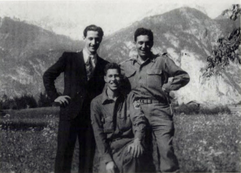 Three bastards